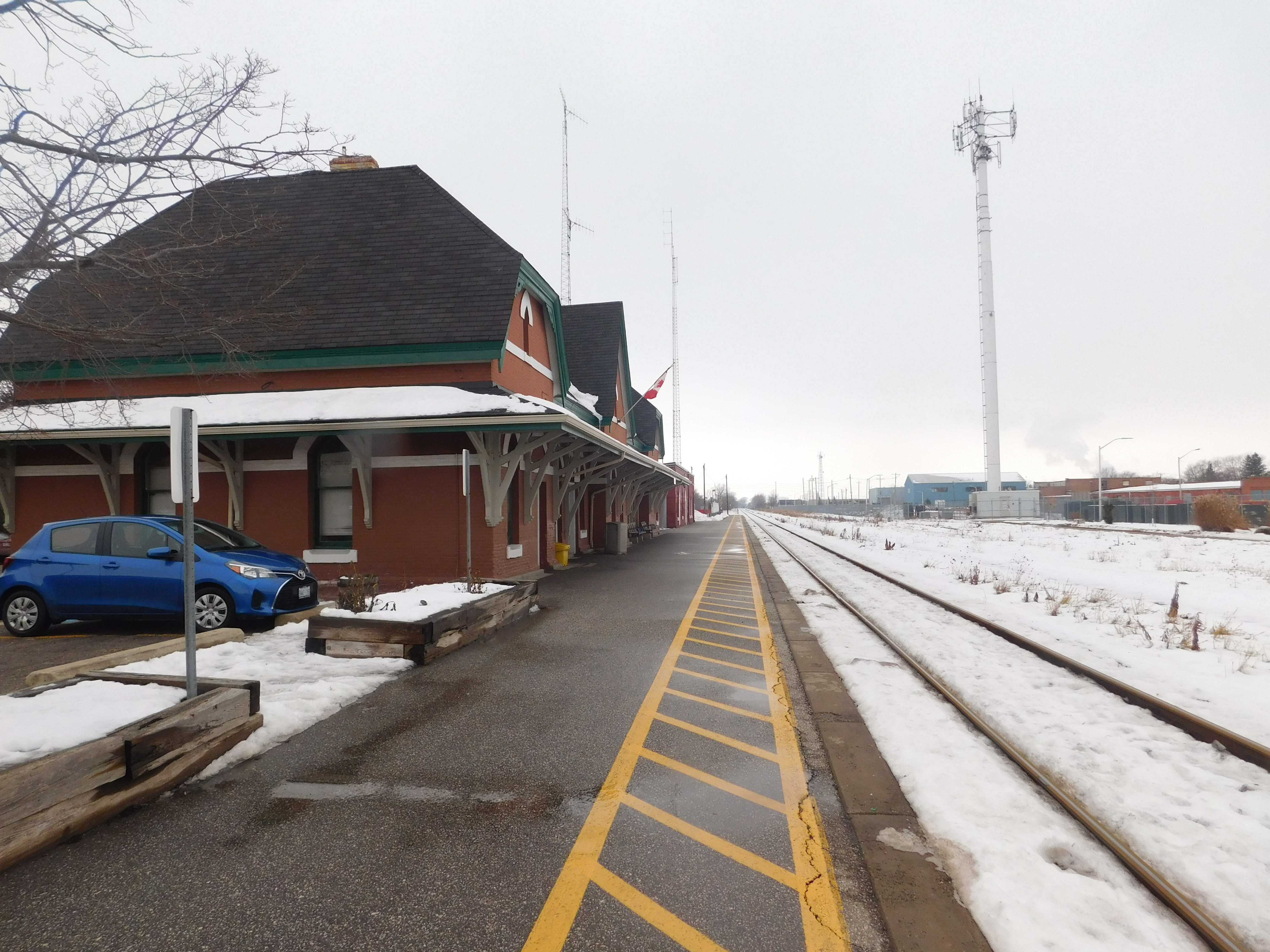 The Chatham railway station in Chatham-Kent, Ontario.